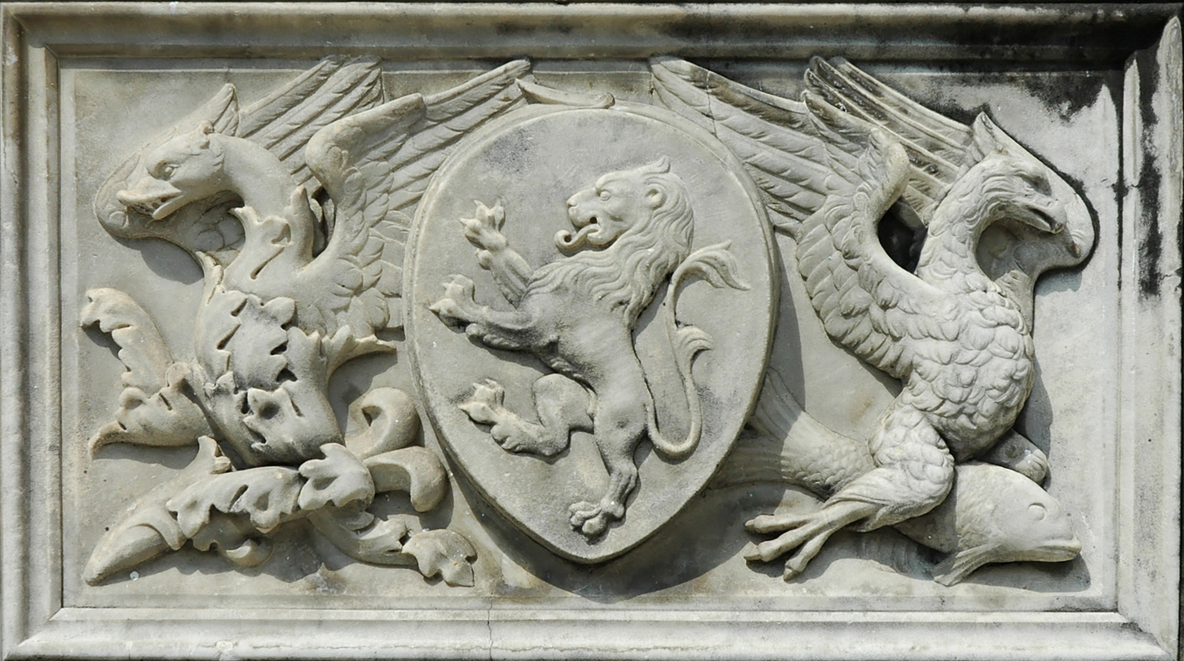 A lion, symbol of the city of Siena. Panel of the Fonte Gaia (Fountain of Joy), piazza del Campo, Siena. The original was the work of Jacopo della Quercia (ca. 1367–1438). Badly deteriorated by long exposure to the elements, the fountain was entirely replaced in 1868 by a copy made by neo-Renaissance sculptor Tito Sarrocchi (1824–1900).